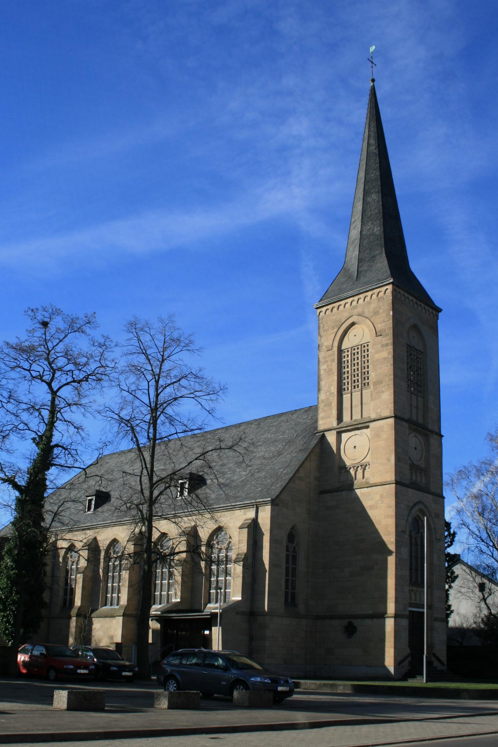 Cultural heritage monument No. 42 in Jülich